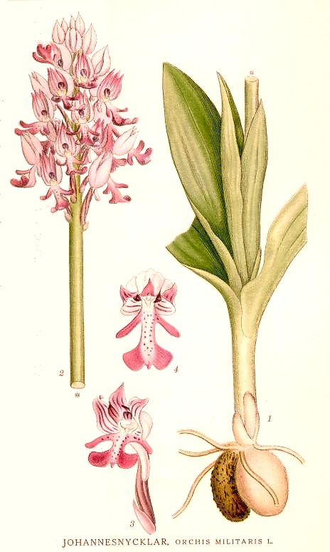 Original Description Johannesnycklar, Orchis militaris L.